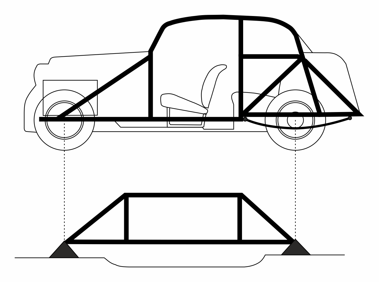 Passenger car body schematically represented as a truss - PNG